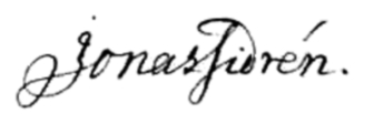 Signature of Jonas Sidrén.